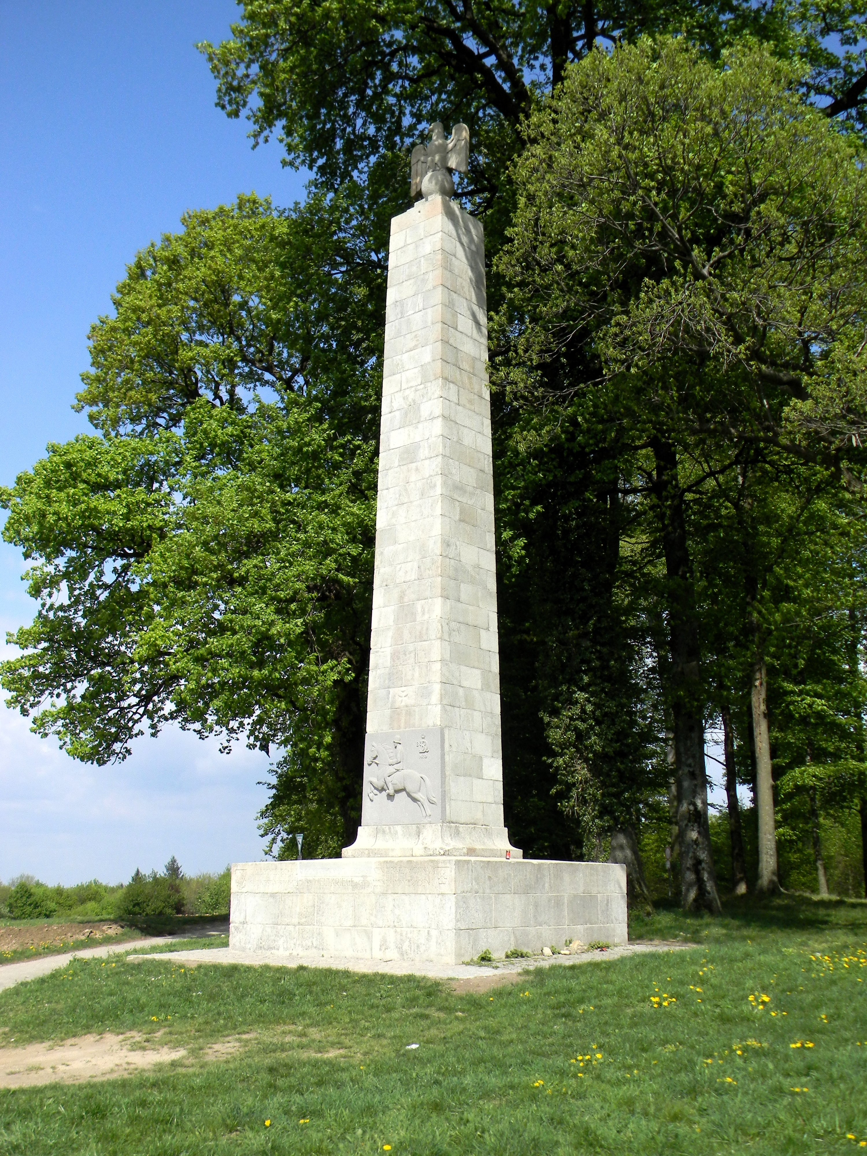 prussian 15th Dragoons (3rd Silesian) memorial near Winden